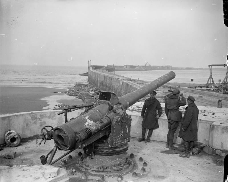 Captured German 150mm gun of the Lubeck battery on the mole at Zeebrugge. Comment : the breech has been blown off before capture.